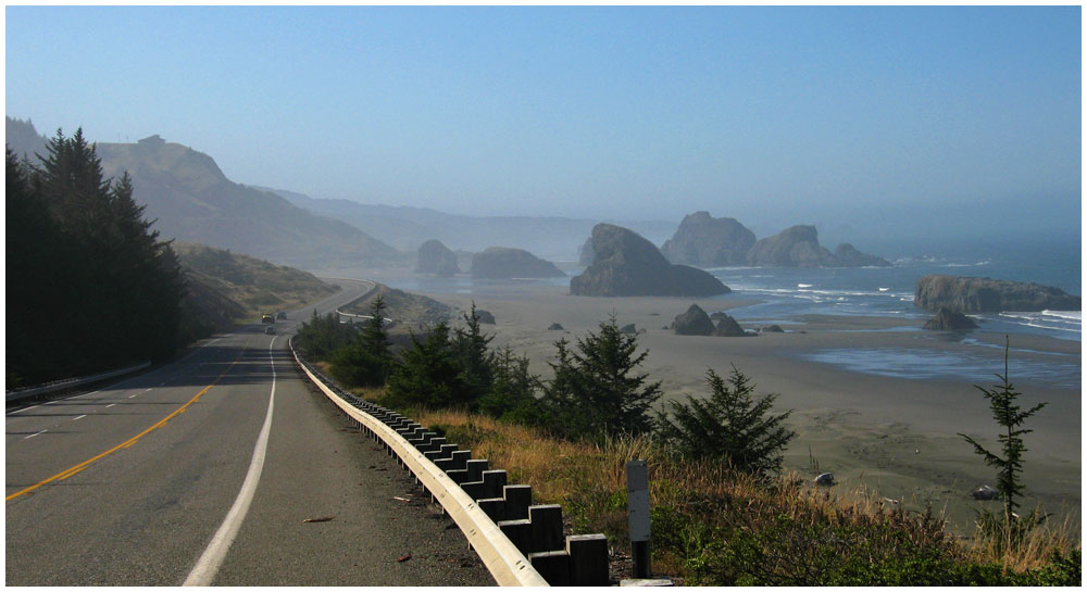 Oregon coast, Hunter's Cove, north of Cape Sebastian, Highway 101